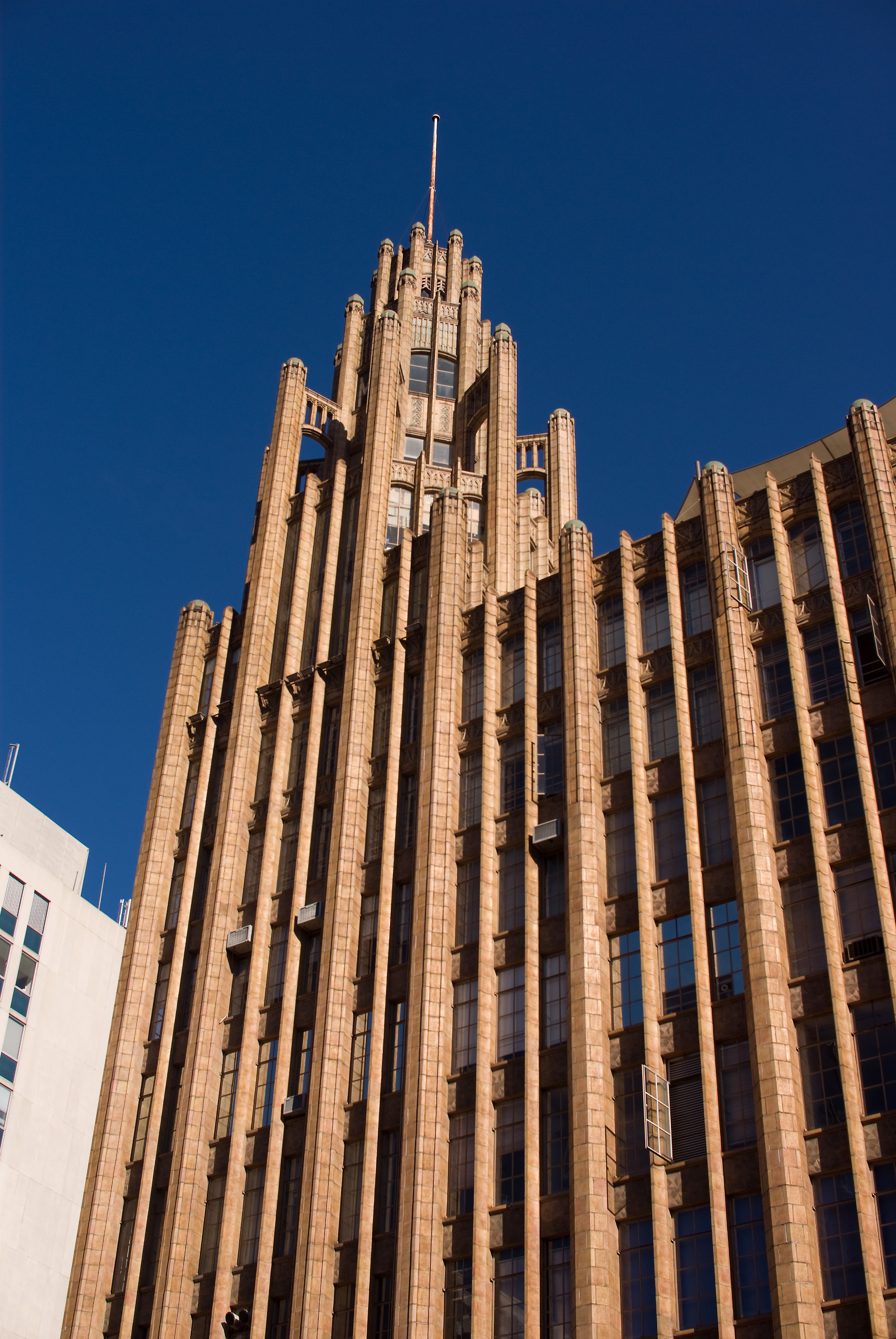 Portion of the eastern facade of the Manchester Unity Building, Melbourne, pictured from the Swanston Street balcony of the Melbourne Town Hall.